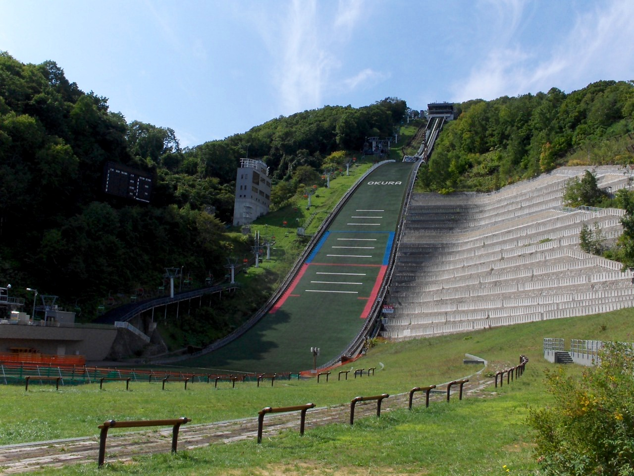 Okurayama Ski Jump Stadium, Sapporo, Japan. I took this picture in 2007.